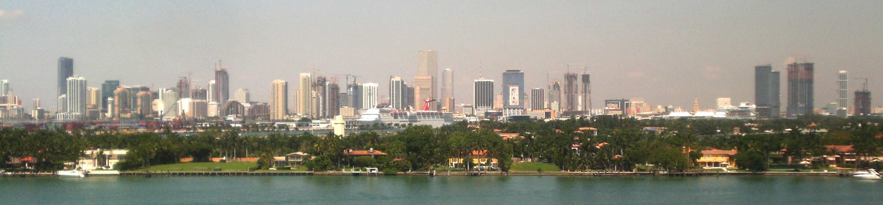 Digital photo taken by Marc Averette. Miami, Florida skyline as seen from Miami Beach 6/10/2007.